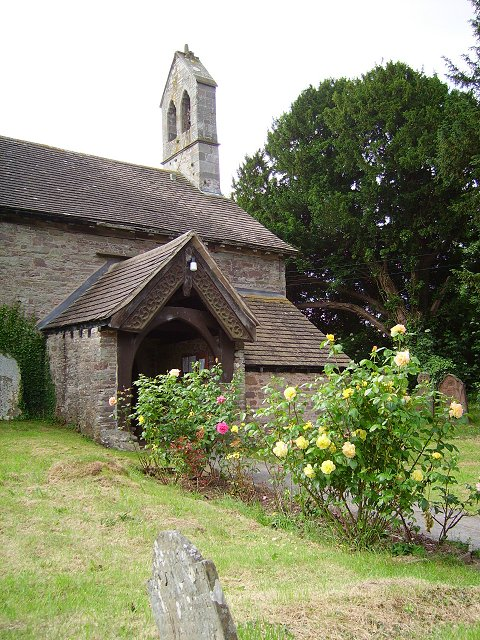 Llanspyddid. Church in a small village beside the Usk.